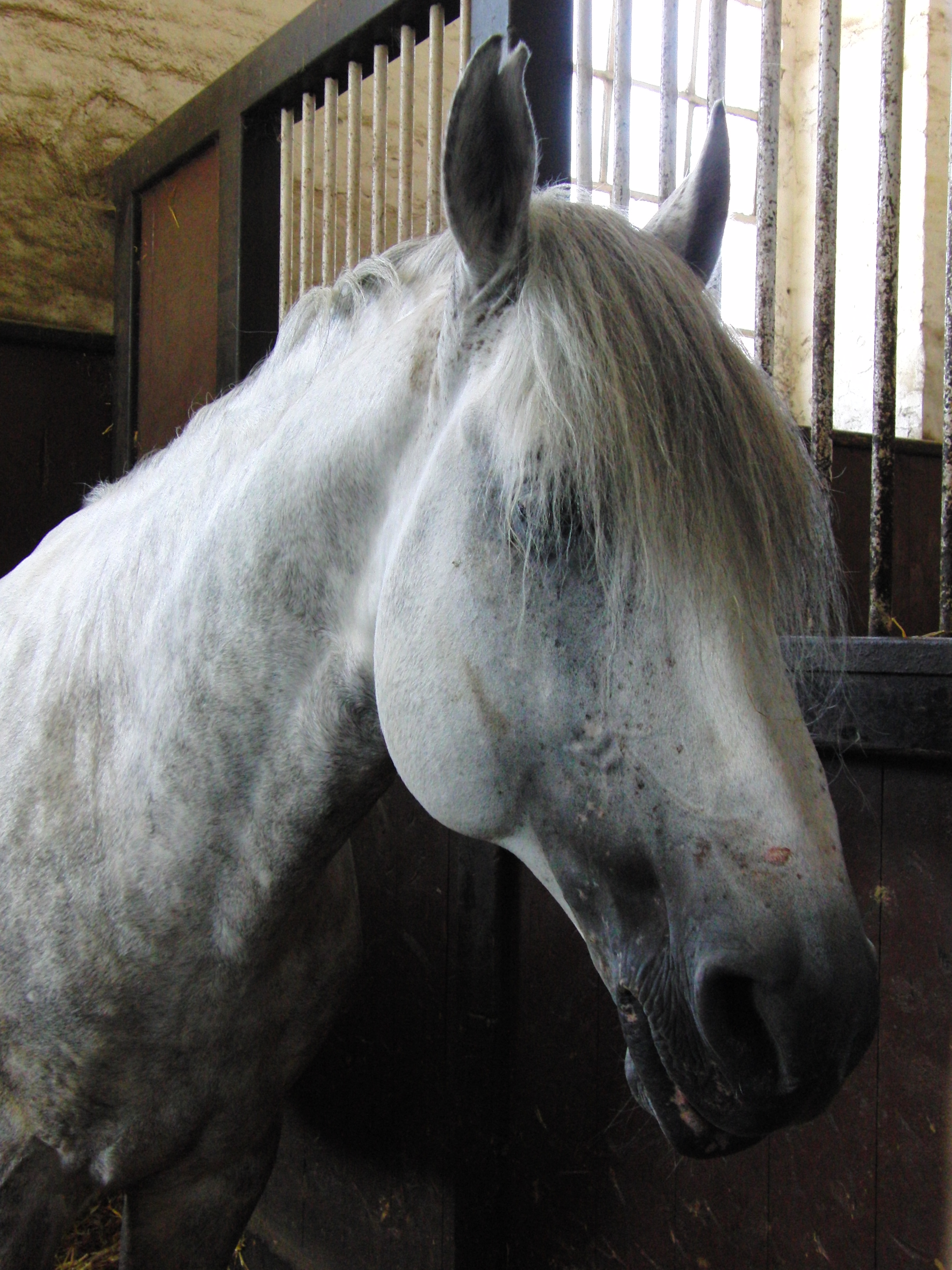 Ouadoud, moroccan barb horse born in 2003, offered to the french Haras Nationaux in 2009 by Mohammed VI king of Morocco, Haras du Pin, Orne, France